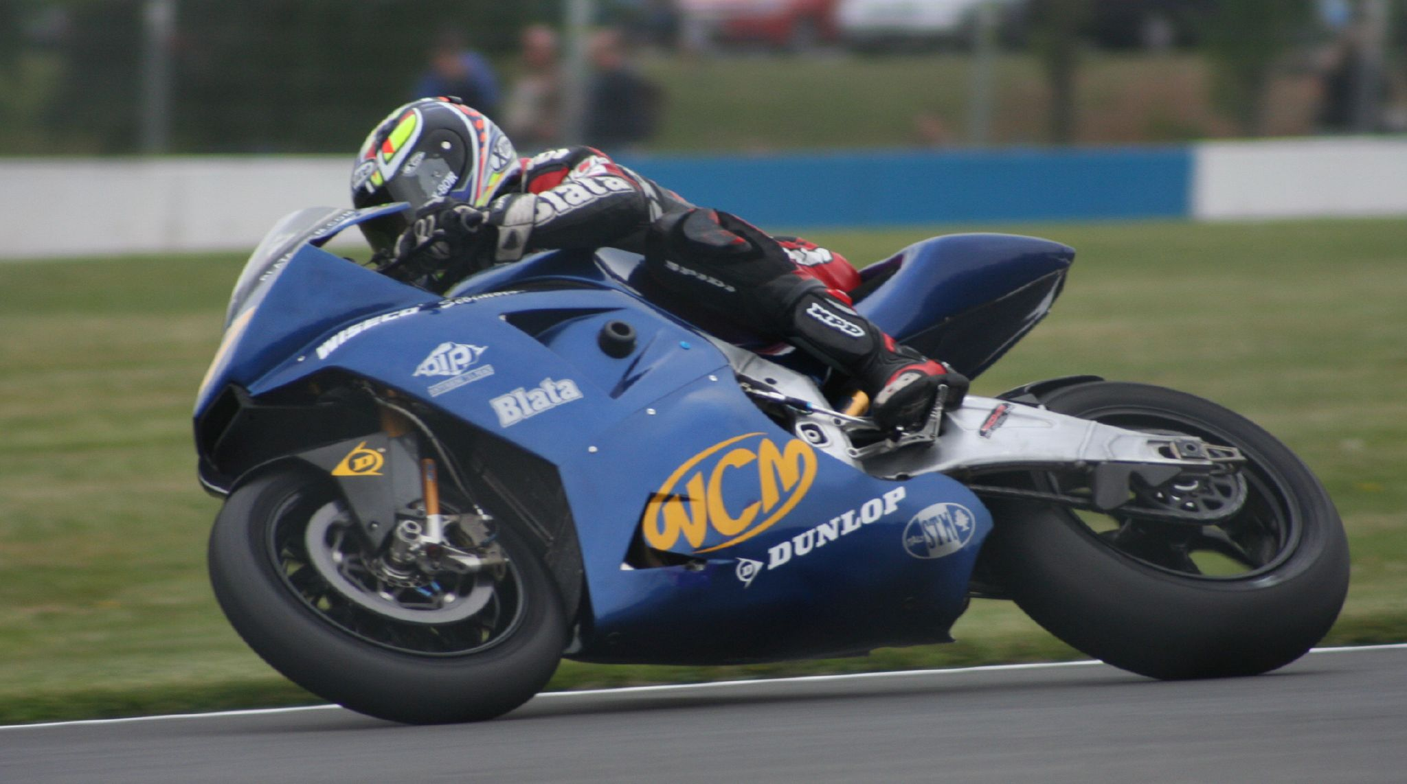 James Ellison on Blata WCM 2005 Donington